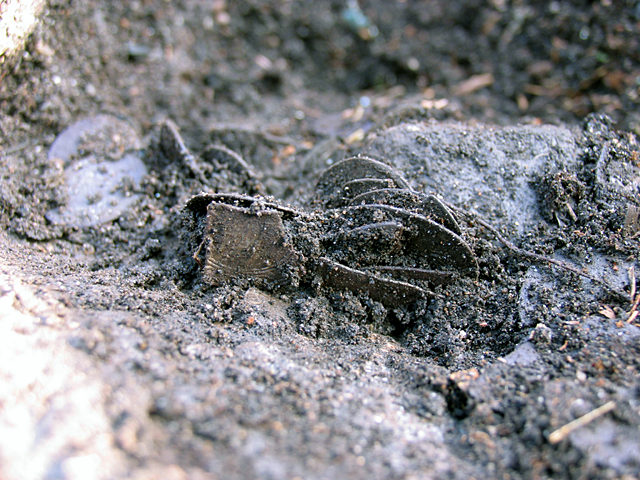 Silver coins during excavation of the Sundveda Hoard in Uppland, Sweden